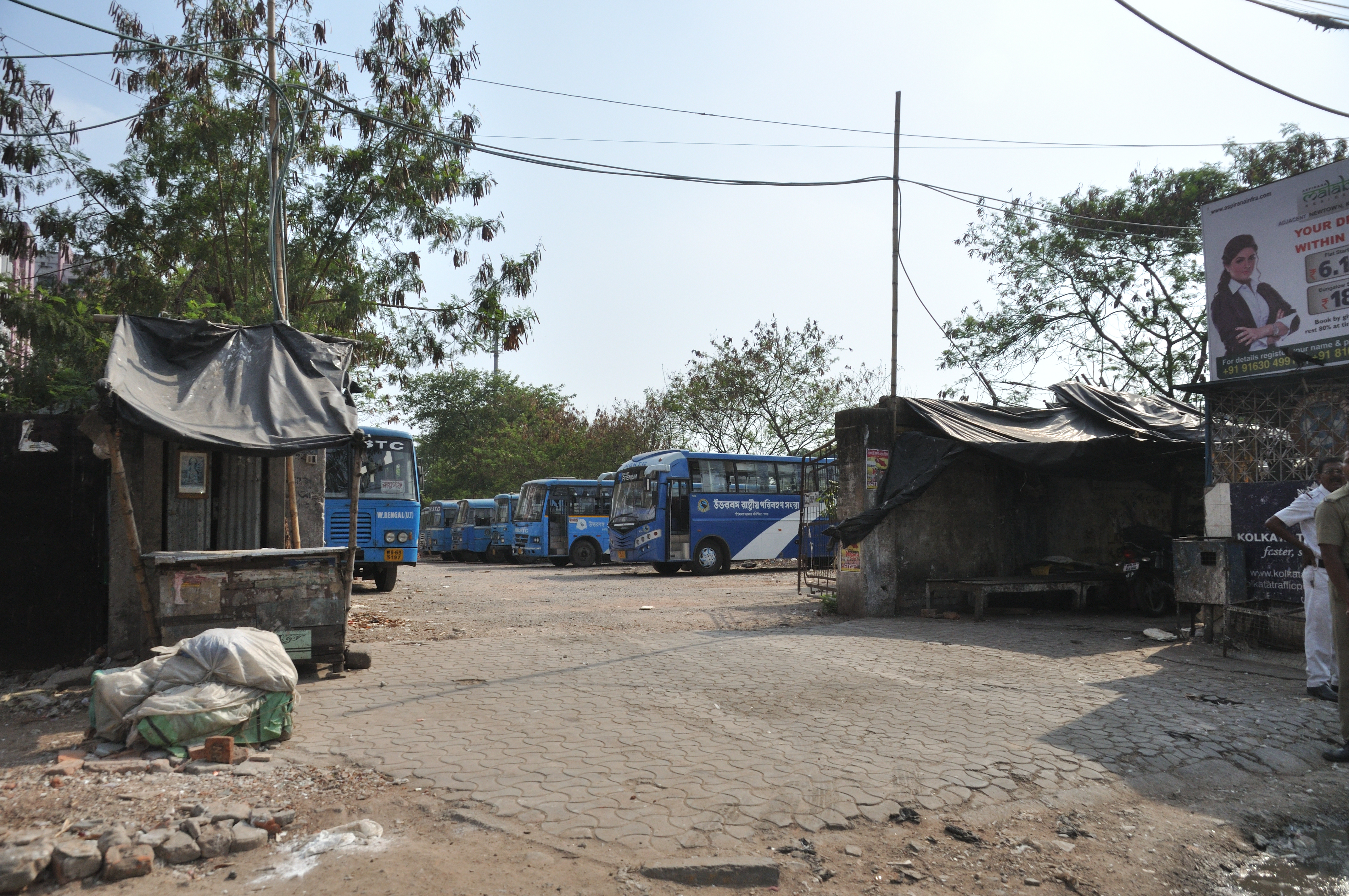 This photograph was taken in Kolkata.